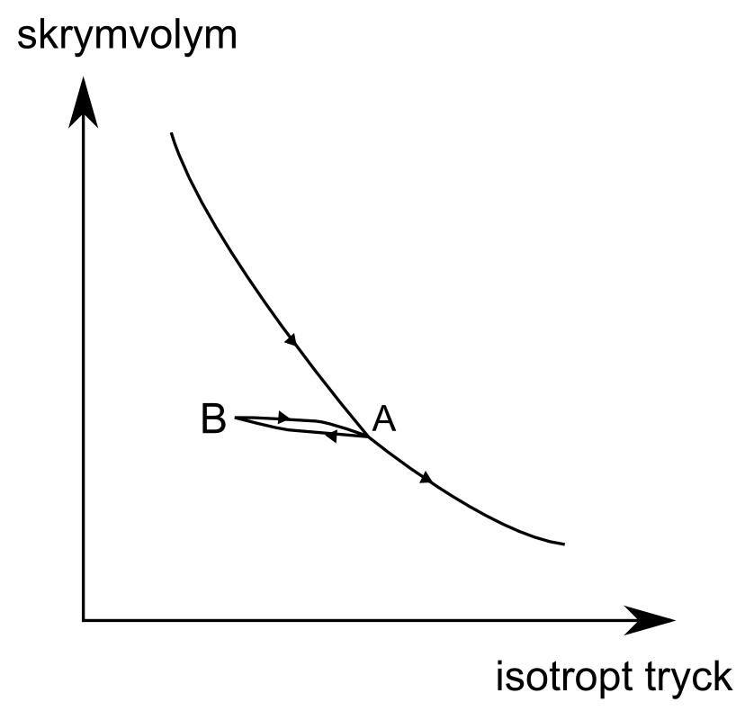 Illustrative picture on idea how the spicifdic volume of a granular material changes depending on isotropic pressure